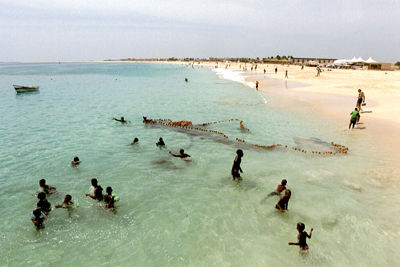 Santa Maria beach, the southernmost tip of Ilha do Sal, Cape Verde Photograph taken in October 2001 by Henryk Kotowski and released under the GFDL licence